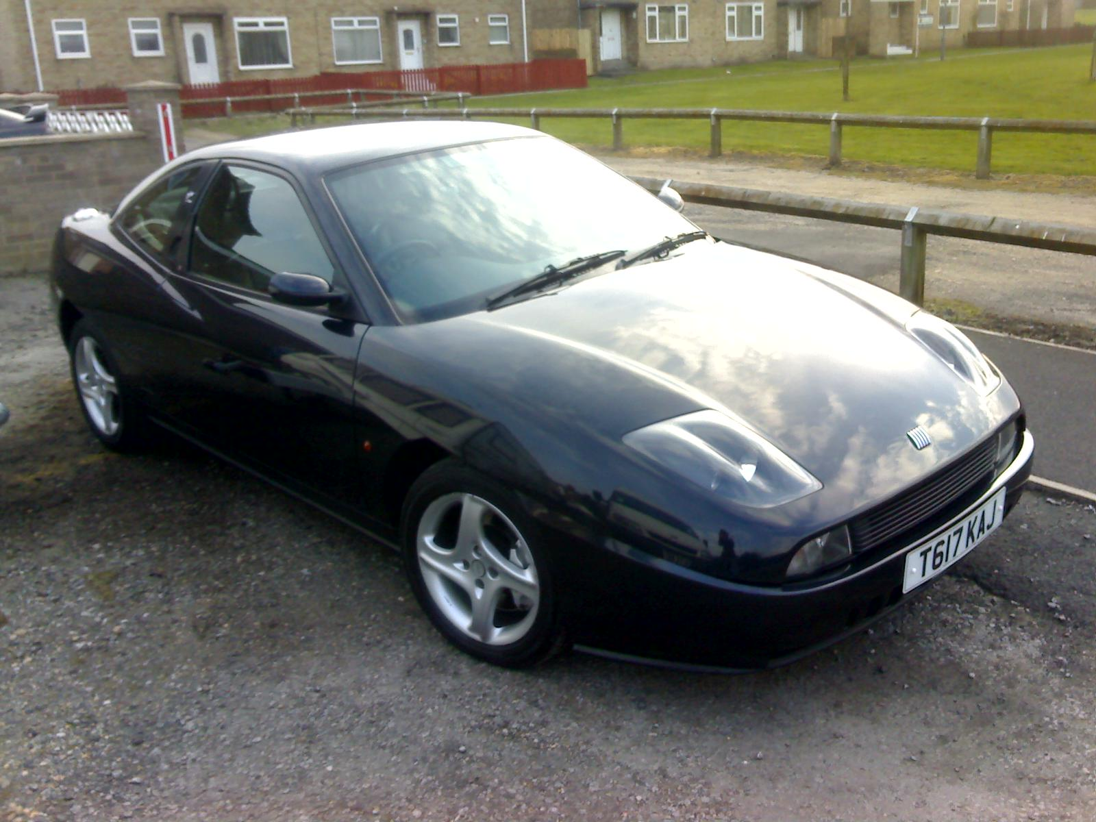 Fiat Coupe Offside Front Photo